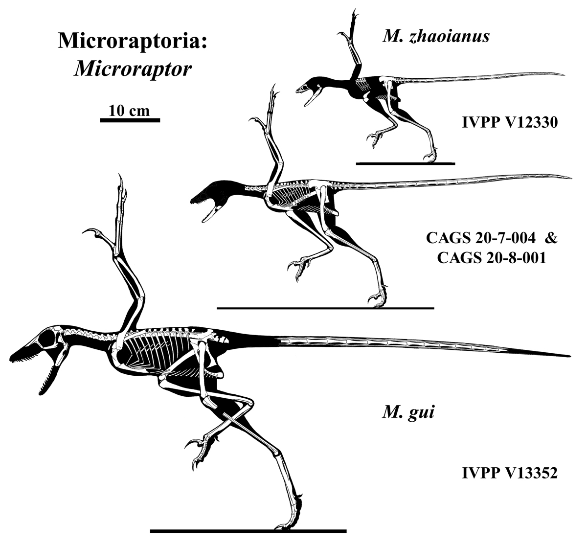 Skeletal reconstruction of Microraptor.